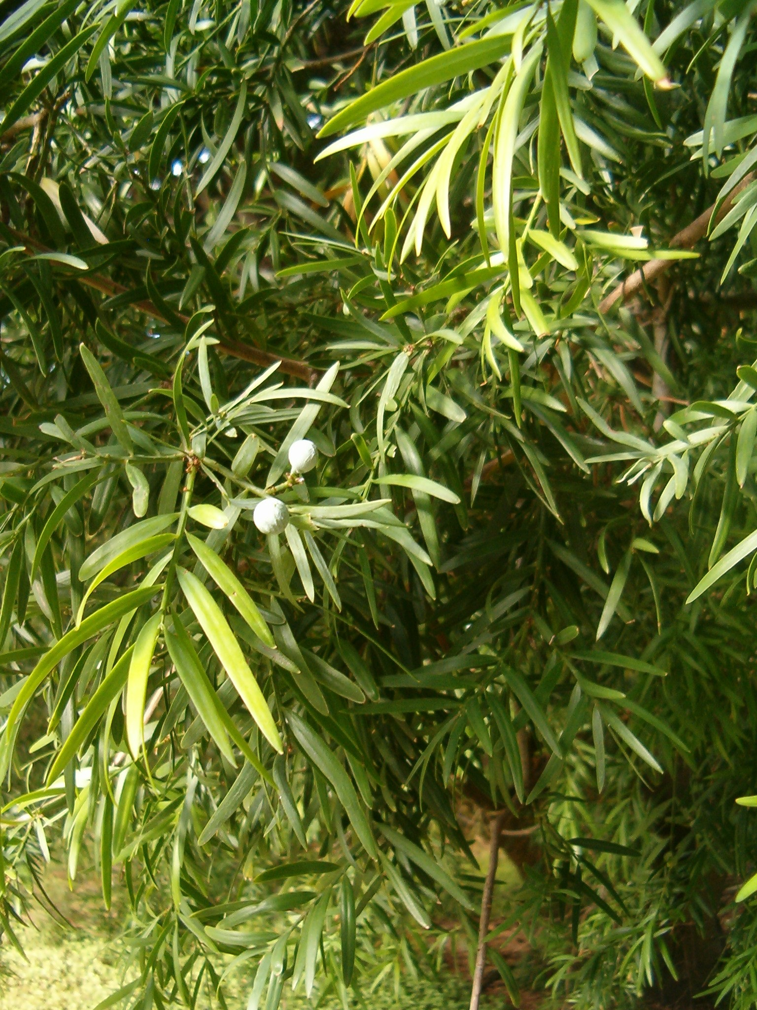 At Kirstenbosch National Botanical Gardens Name Podocarpus falcatus